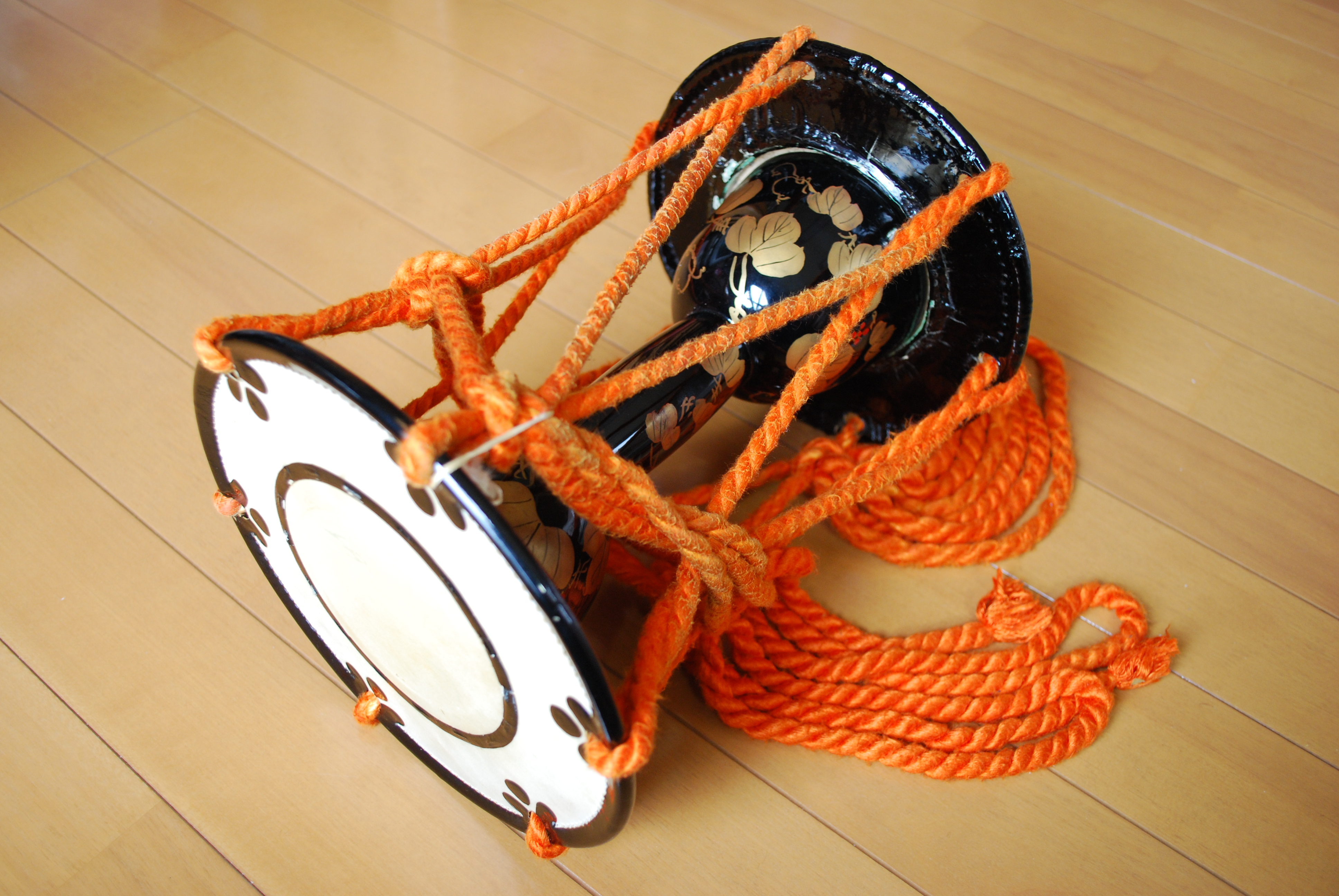 Japanese_small_hand_drum,kotsudumi,katori-city,japan